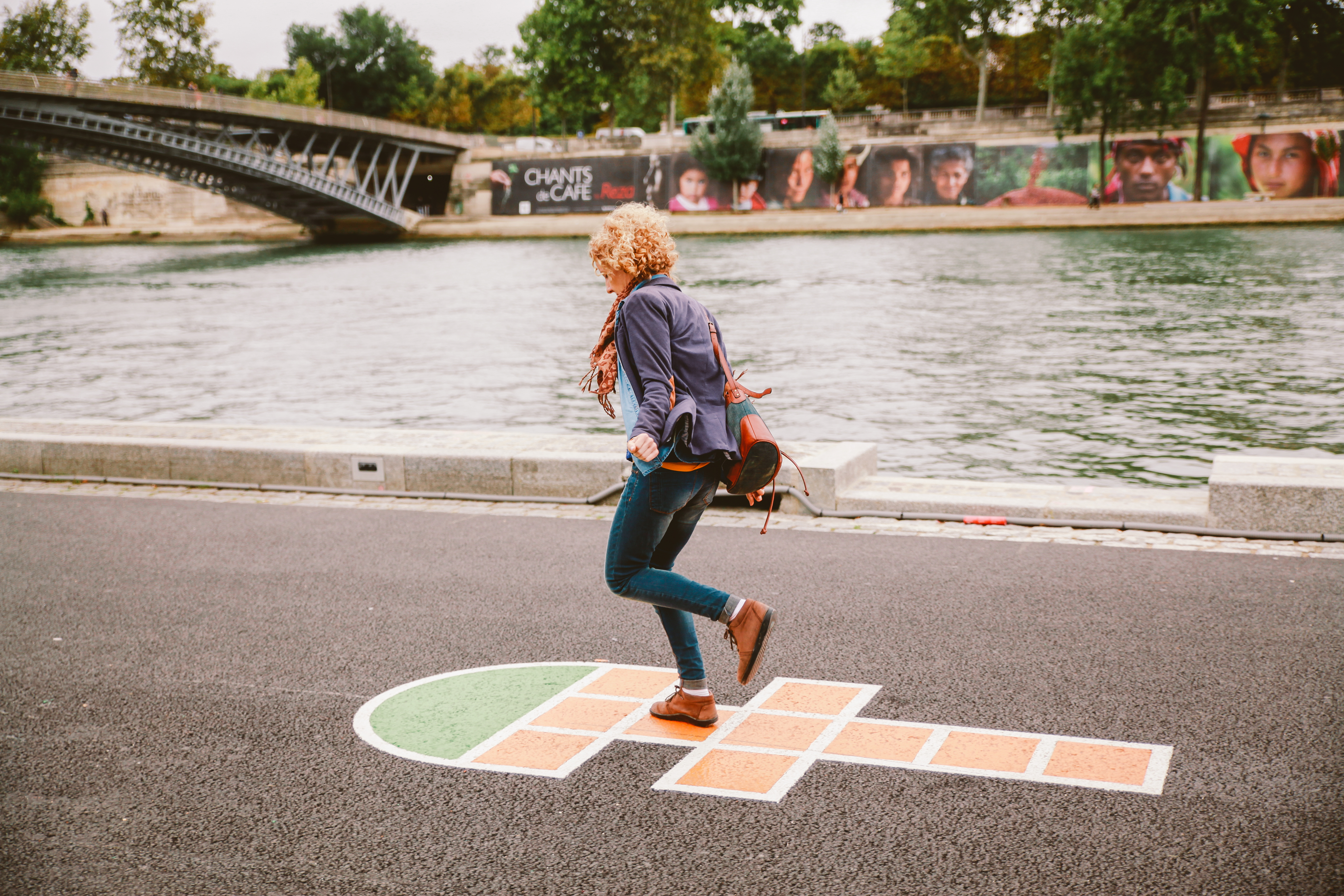 Street art Hopscotch, Quai Anatole-France, near Passerelle Léopold-Sédar-Senghor, Paris.